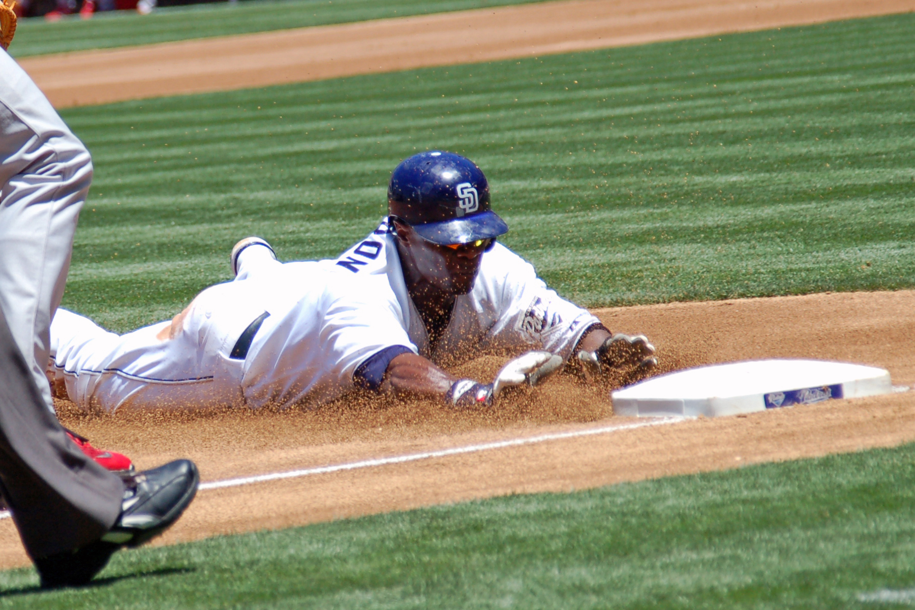 Mike Cameron slides head first into third base.